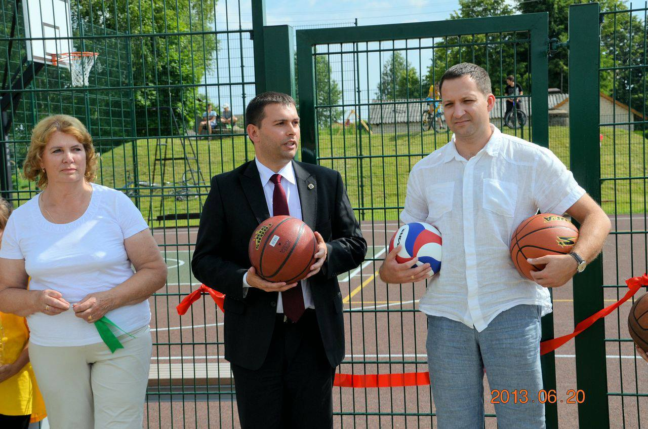 Remigijus Osauskas